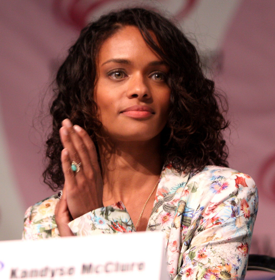 Kandyse McClure at the 2013 WonderCon